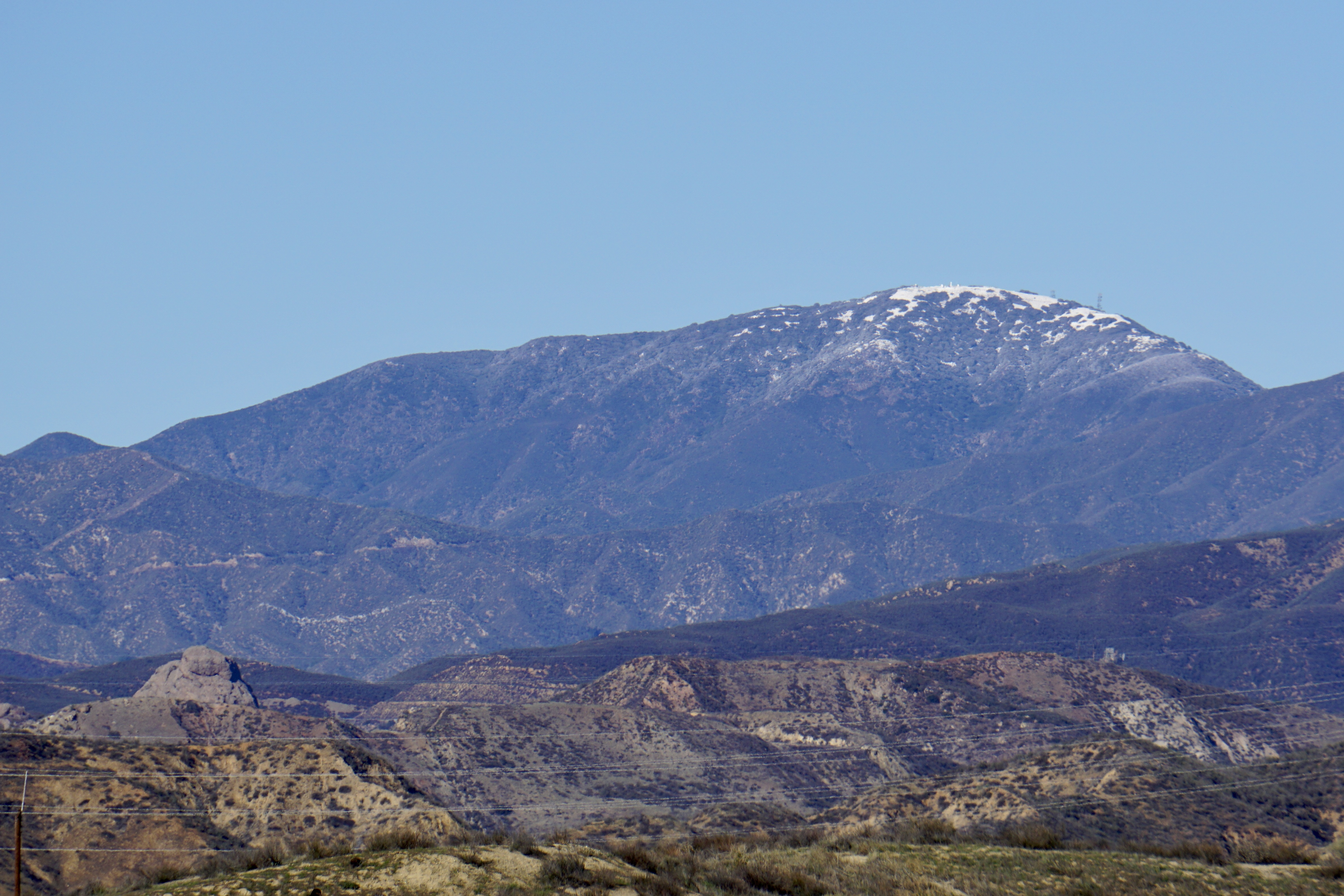 A close up view of Burnt Peak, the tallest mountain in the Sierra Pelona mountain range.